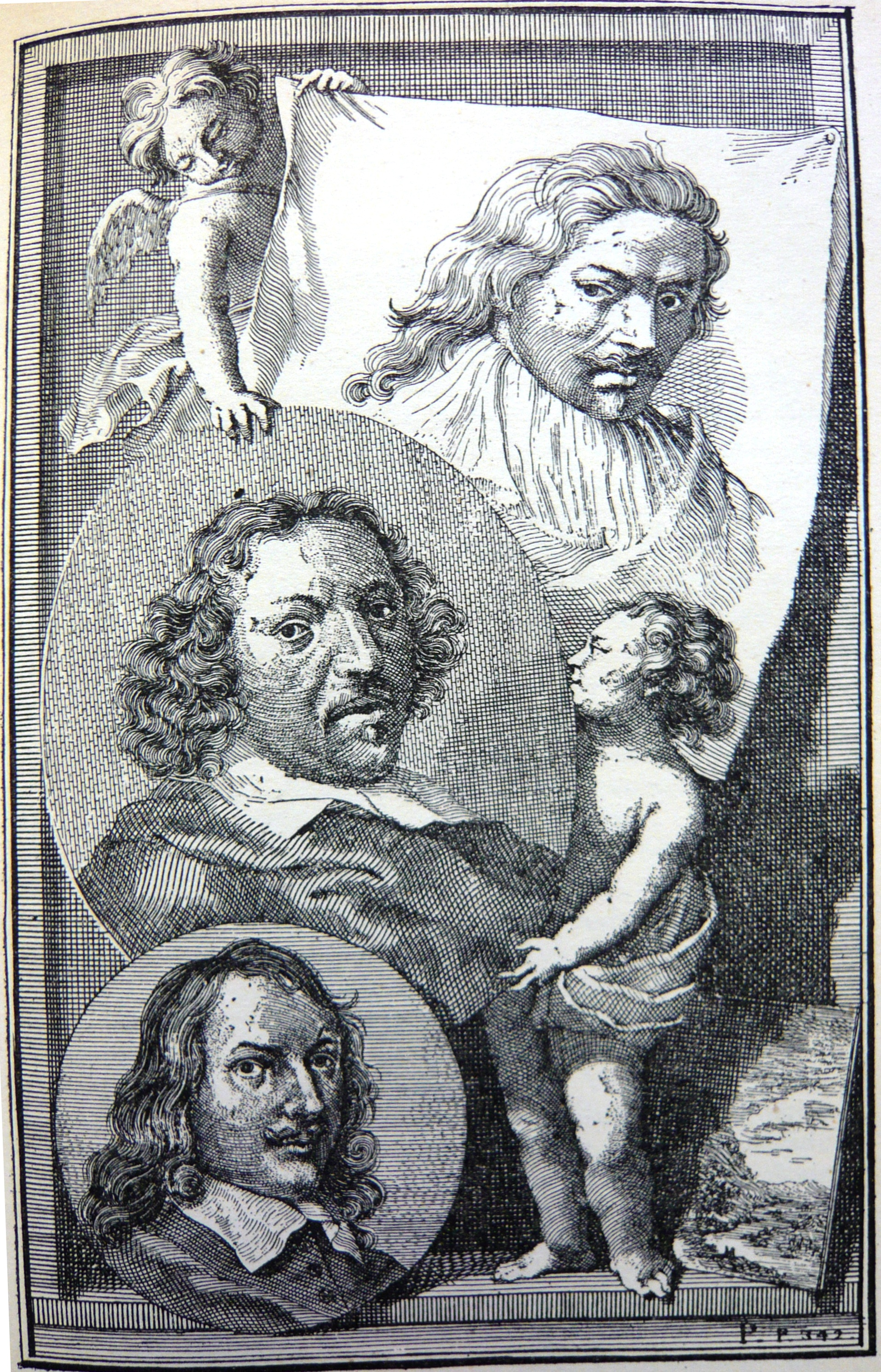 Schouburg Part 1 Plate P with Herman and Cornelis Zachtleven, and David Teniers the Elder (1582-1649), Page 342 of Part 1 of Arnold Houbraken's Schouburg from 1718